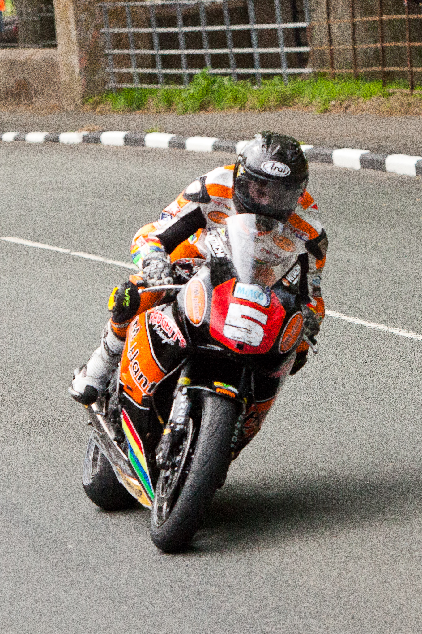 Bruce Anstey at Lezayre during the Superstock 2013 Isle of Man TT 2013 - Superstock